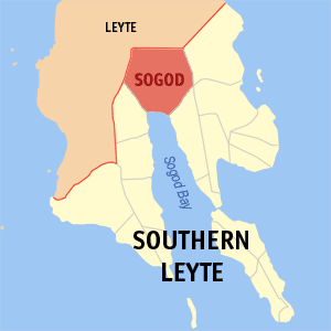 Map of Southern Leyte showing the location of Sogod